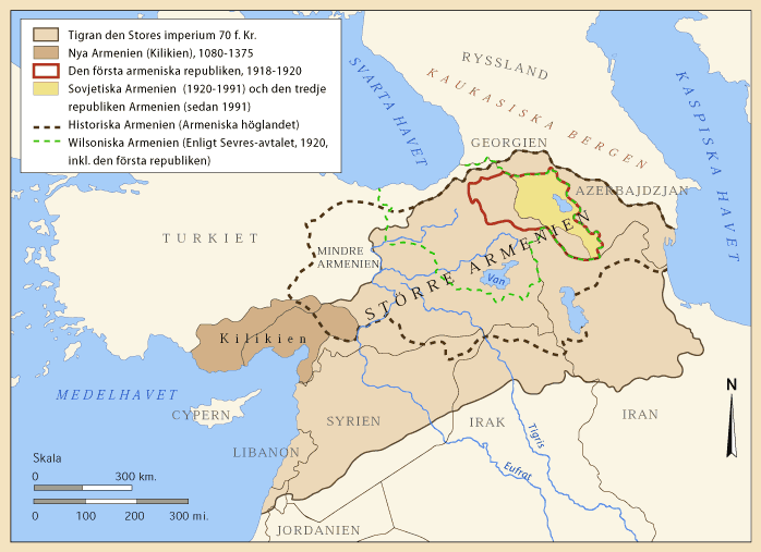 A map of Armenia's borders throughout history